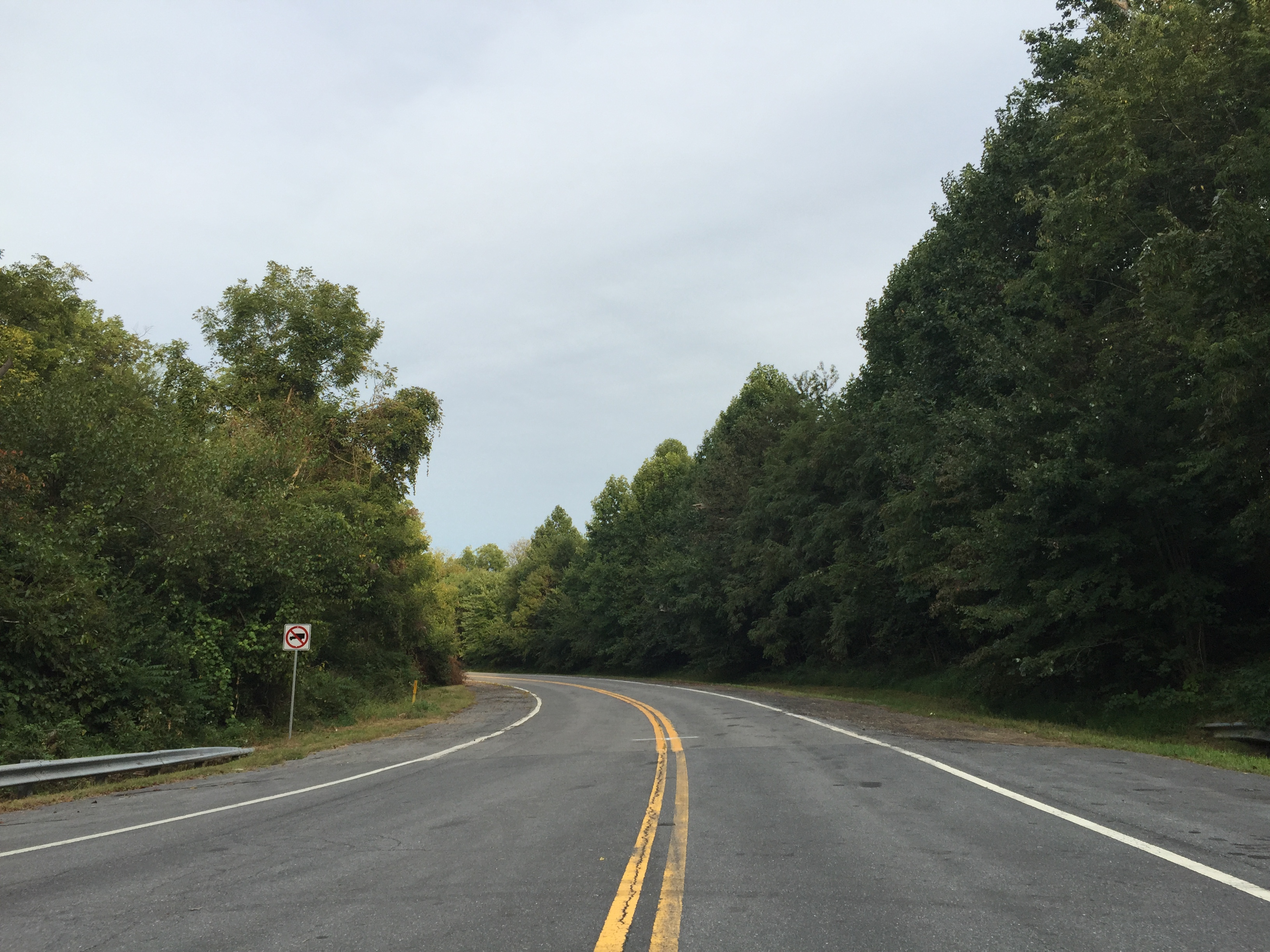 View east along Maryland State Route 877 (Baldwin Road) at Maryland State Route 75 (Green Valley Road) just southeast of New Market in Frederick County, Maryland